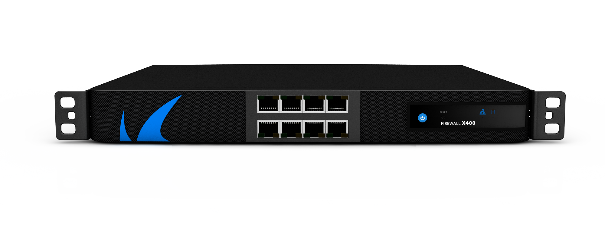 As with most Barracuda solutions, the Barracuda Next Gen Firewall can be deployed on premises as a hardware appliance, or in private or public cloud networks as a virtual appliance.